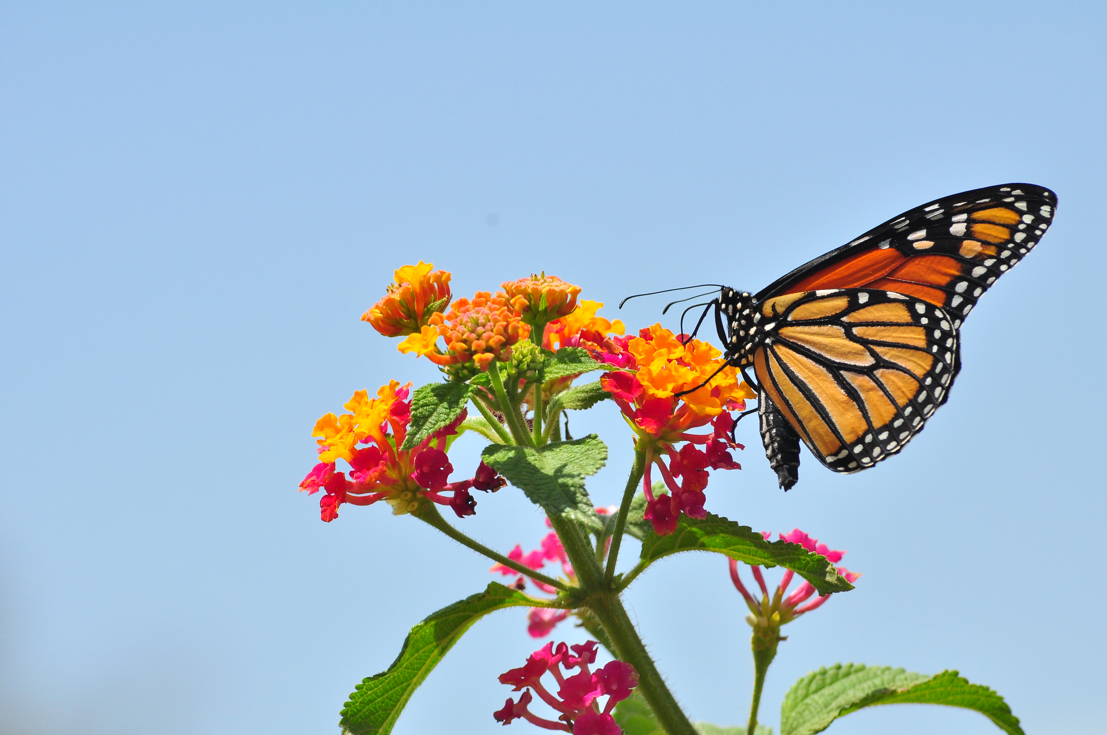 natural color contrast with the blue sky...